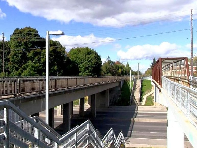 Finch Avenue railway bridge and the set of stairs entrance to Old Cummer Station of GO Transit